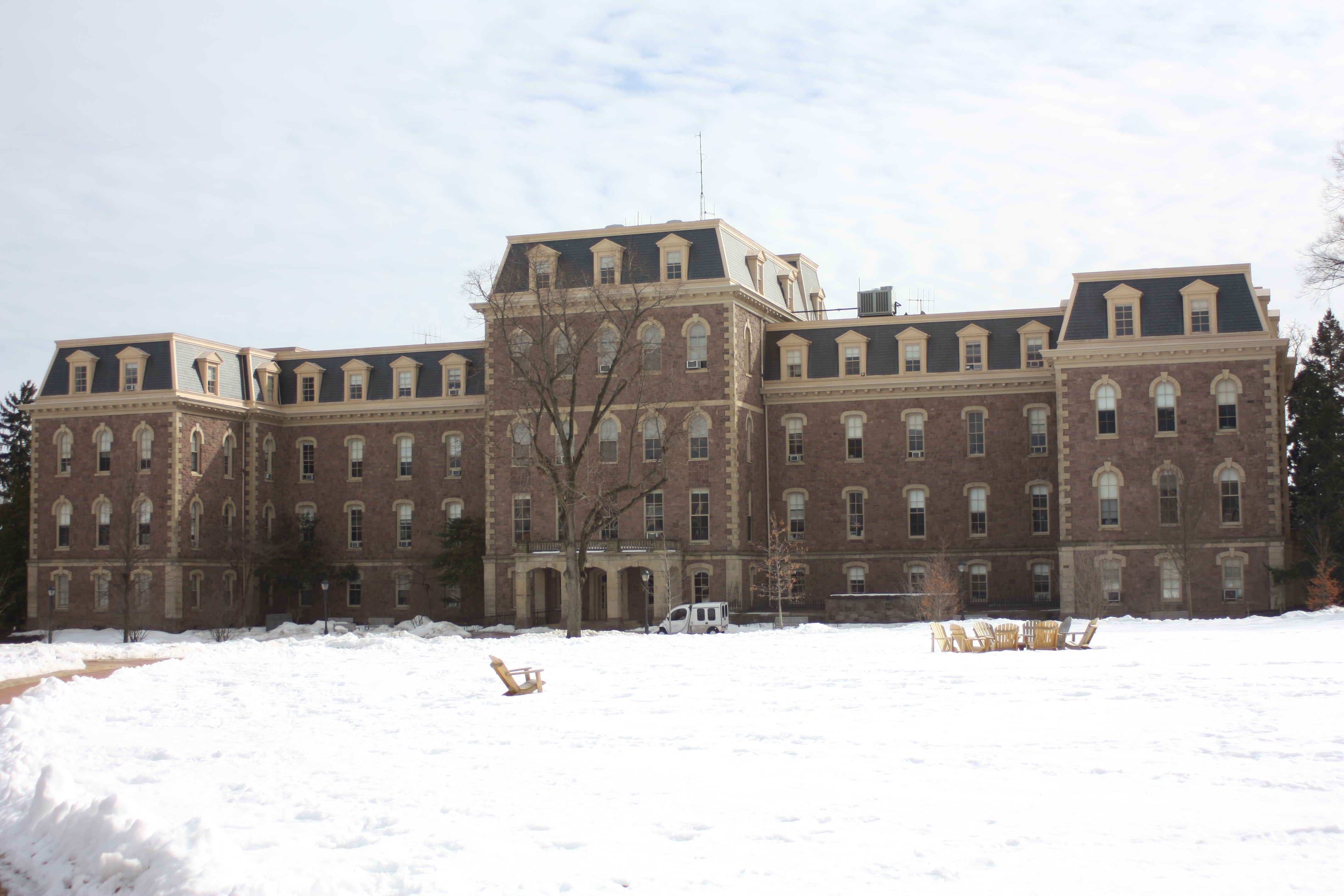 A photo of Pardee Hall on the Lafayette College campus in Easton, Pennsylvania. taken on March 4, 2014